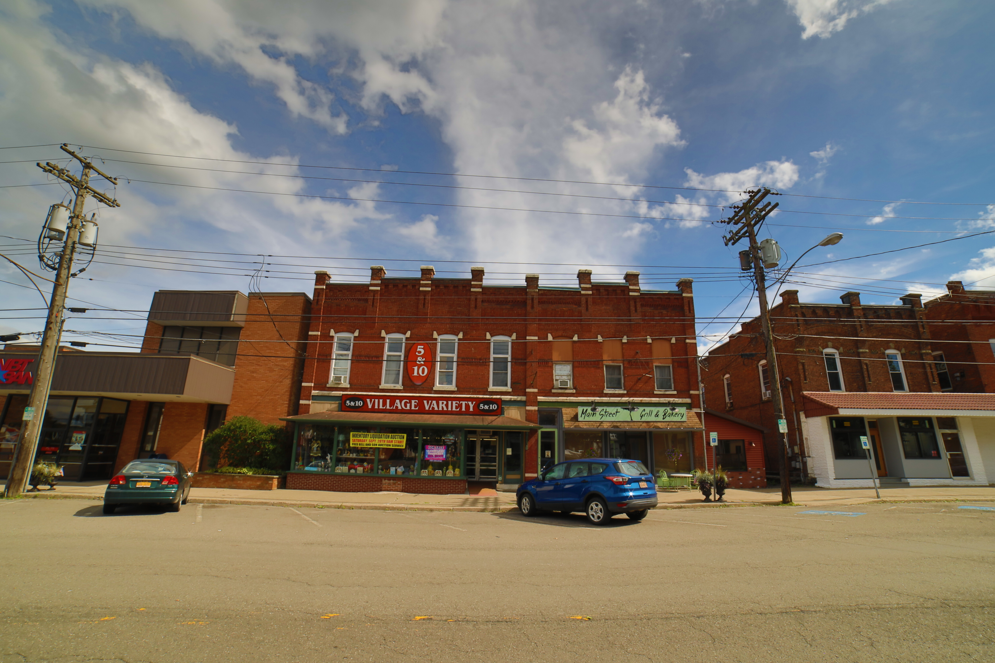 New York, Main Street Historic District. Wikidata has entry Q6736119 with data related to this item.